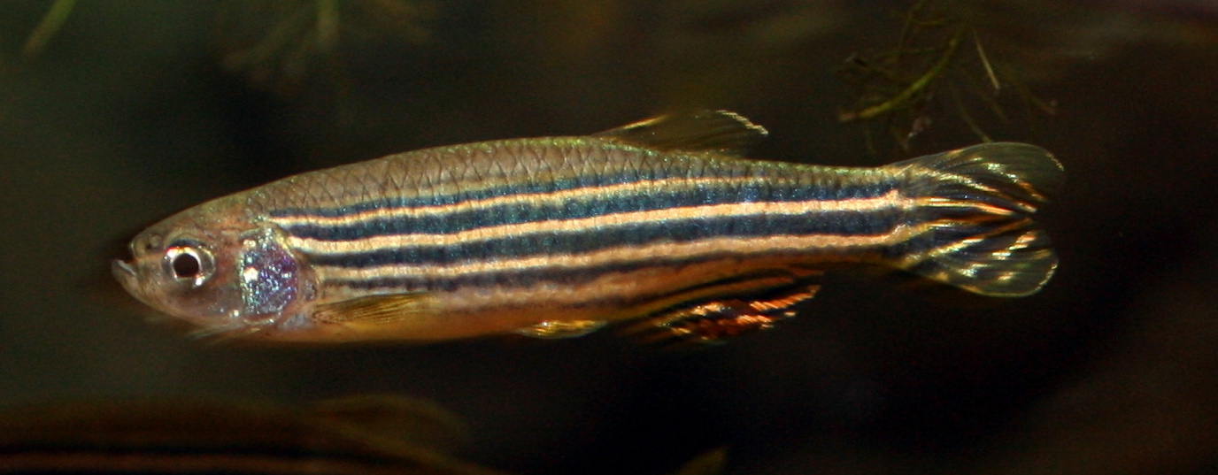 A female zebrafish, Danio rerio